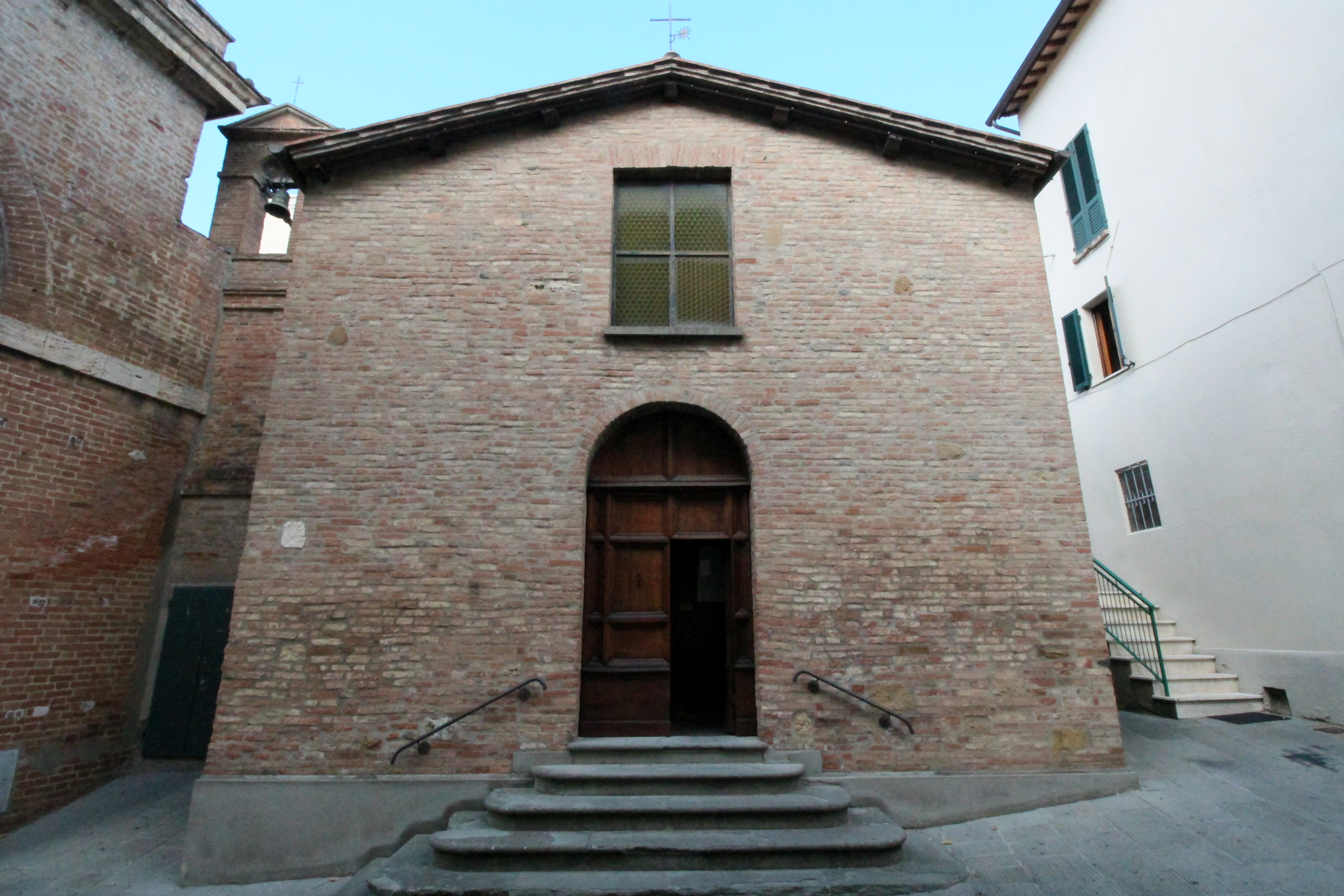 Church Chiesa dell’Immacolata, Chianciano (Chianciano Terme), Province of Siena, Tuscany, Italy.